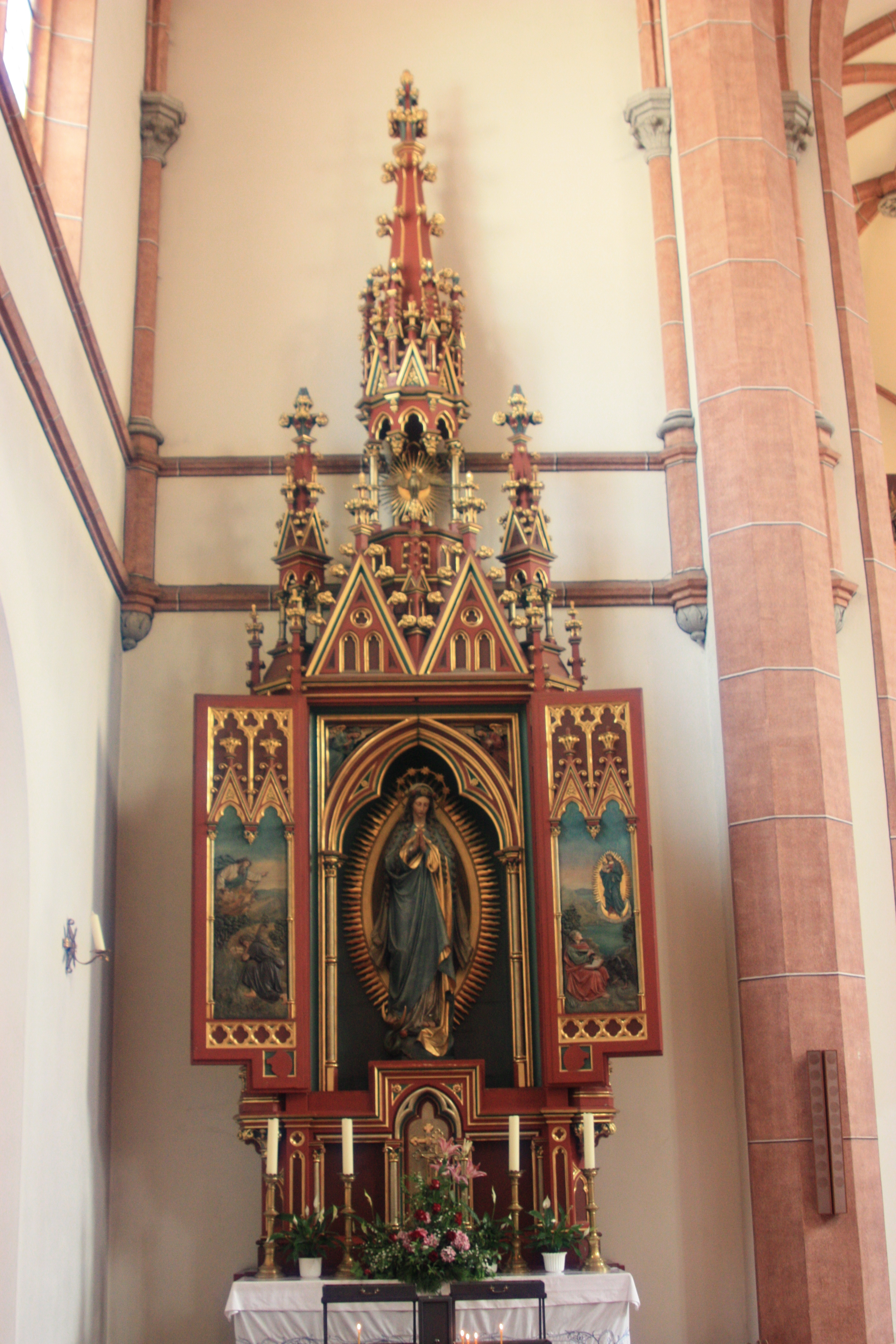 Parish church Saint Nikolaus: Left side altar Street:Nikolaiplatz Community:Villach